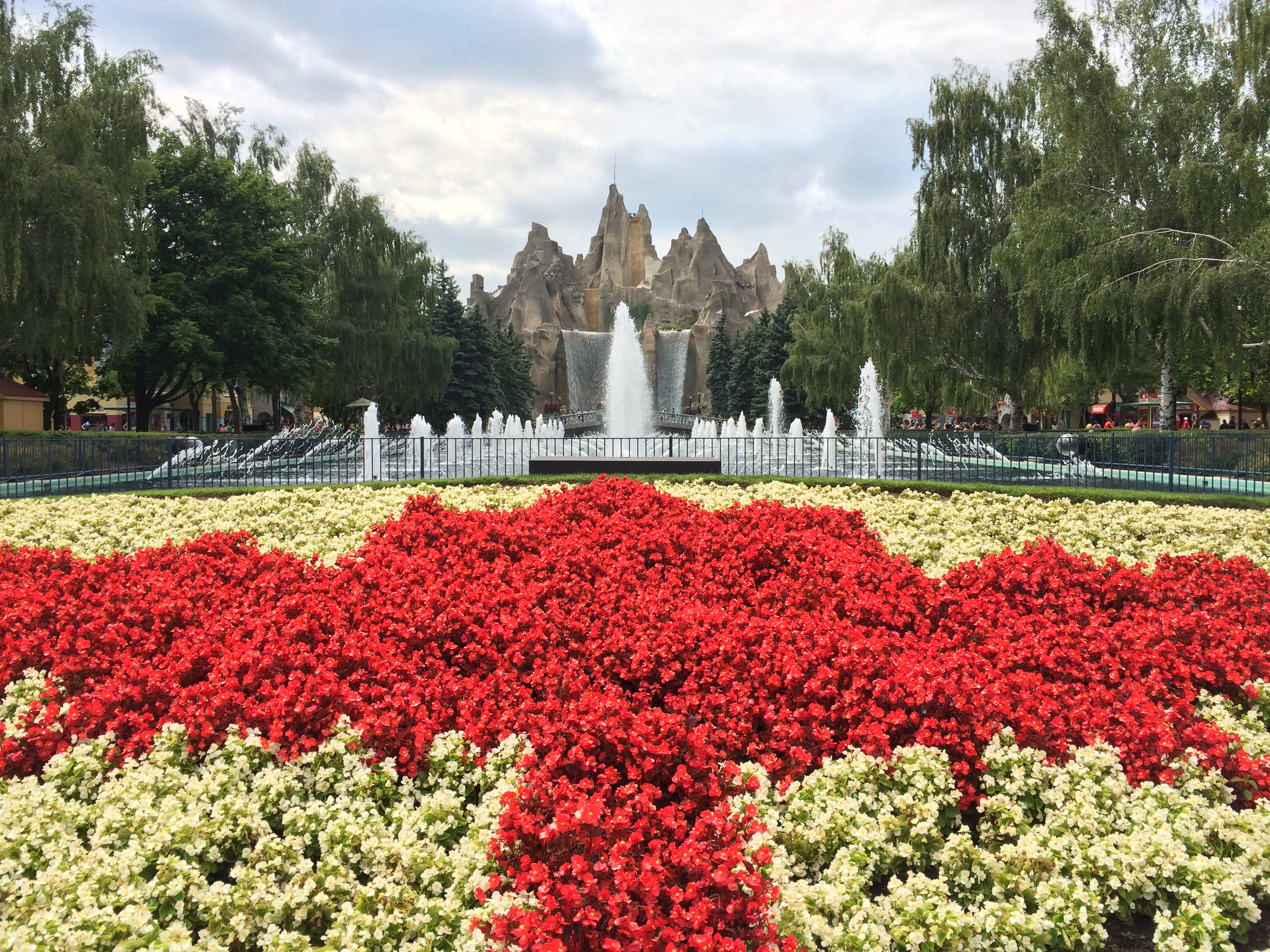 Main square of Canada's Wonderland 2014